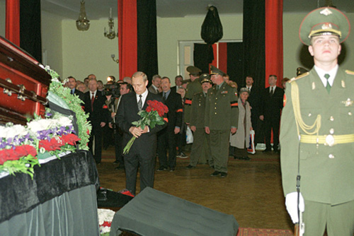 MOSCOW. The funeral of General Alexander Lebed.